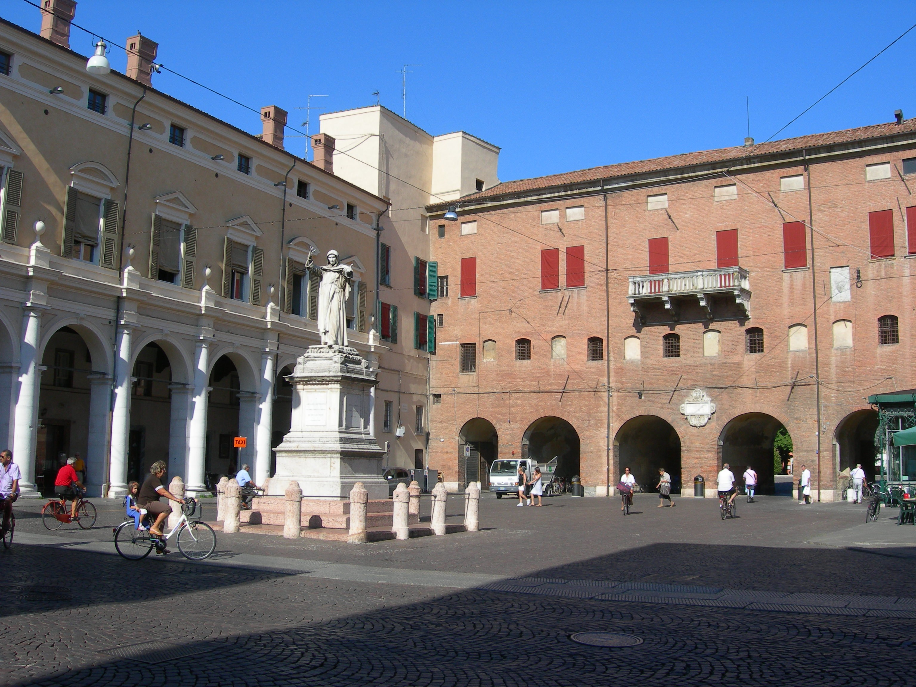 Piazza Savonarola (Savonarola Square)